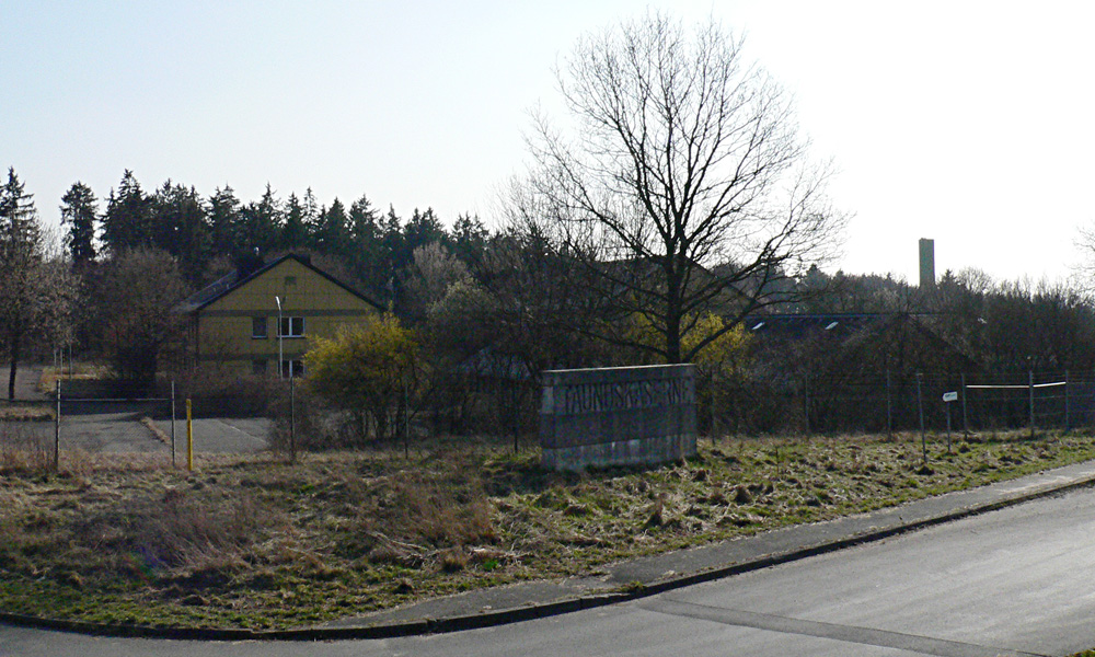 Main area of the Taunus-Kaserne ("taunus barracks") in Heidenrod/Kemel, Germany. In these barracks some parts of FlaRakGrp 42 were located until 2002.